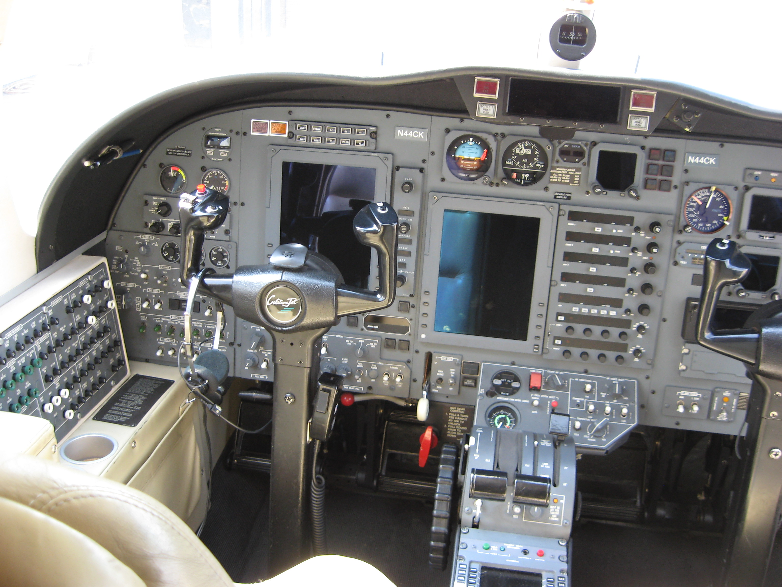 Part of the instrument panel of a Cessna CitationJet CJ1. FAA Registry